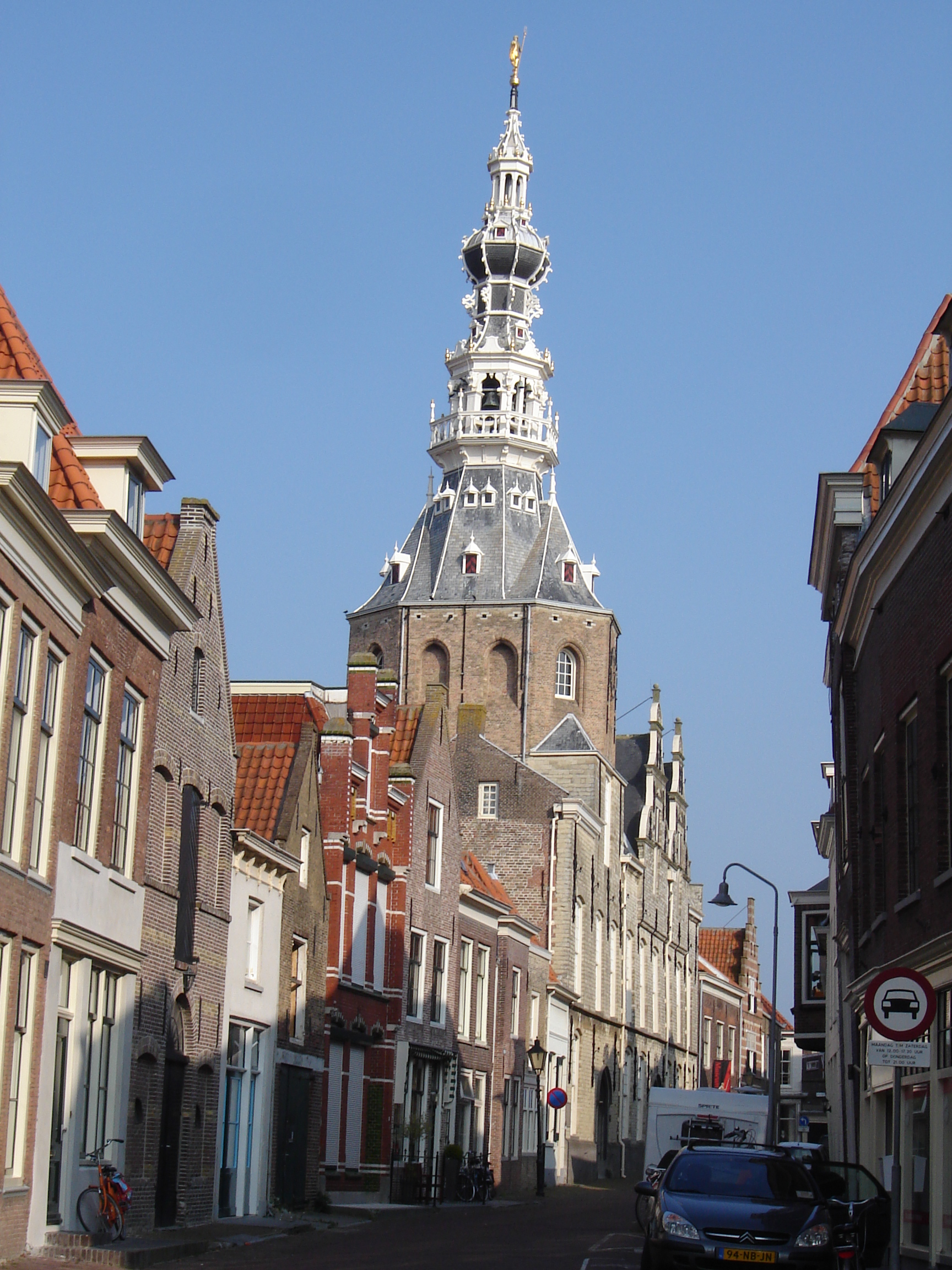 Tower of the city hall of Zierikzee. Zierikzee, Schouwen-Duiveland, Zeeland, Netherlands